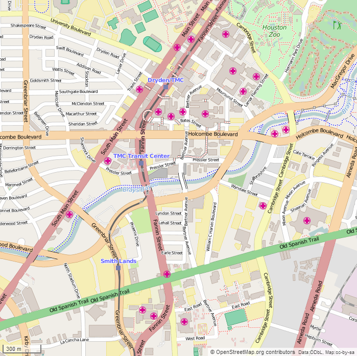 This map of the Houston Medical Center (Texas Medical Center) was created from OpenStreetMap project data, collected by the community. The image should remain clear of any additional edits. To annotate the map for an article, use the Infobox or Location Map template and reference the map using map module Houston Medical Center. This map may be incomplete, and may contain errors. Submit corrections to the below source link. Do not rely solely on the map for navigation. Steven Driskell Image for Map Module : Houston Medical Center Latitude north = 29.71608 Latitude south = 29.69010 Longitude west = -95.41480 Longitude east = -95.38480 Map symbology